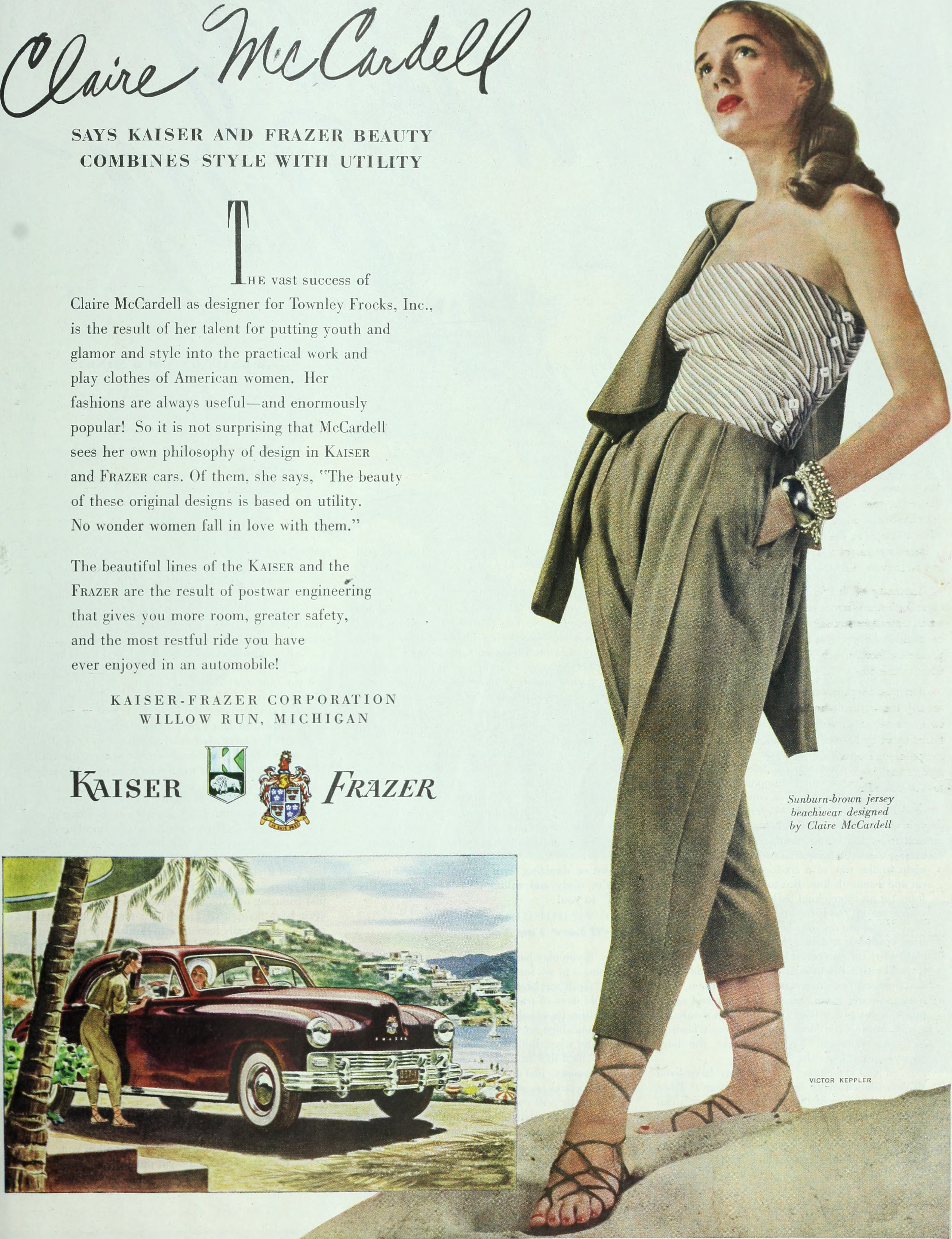 Sunburn-brown jersey beachware designed by Claire McCardell, 1948 Title: The Ladies' home journal Year: 1889 (1880s) Authors: Wyeth, N. C. (Newell Convers), 1882-1945 Subjects: Women's periodicals Janice Bluestein Longone Culinary Archive Publisher: Philadelphia : (s.n.) Text Appearing Before Image: ' Text Appearing After Image: BEAUTY AND DISTINCTION OF CUSTOM CAR STYLING